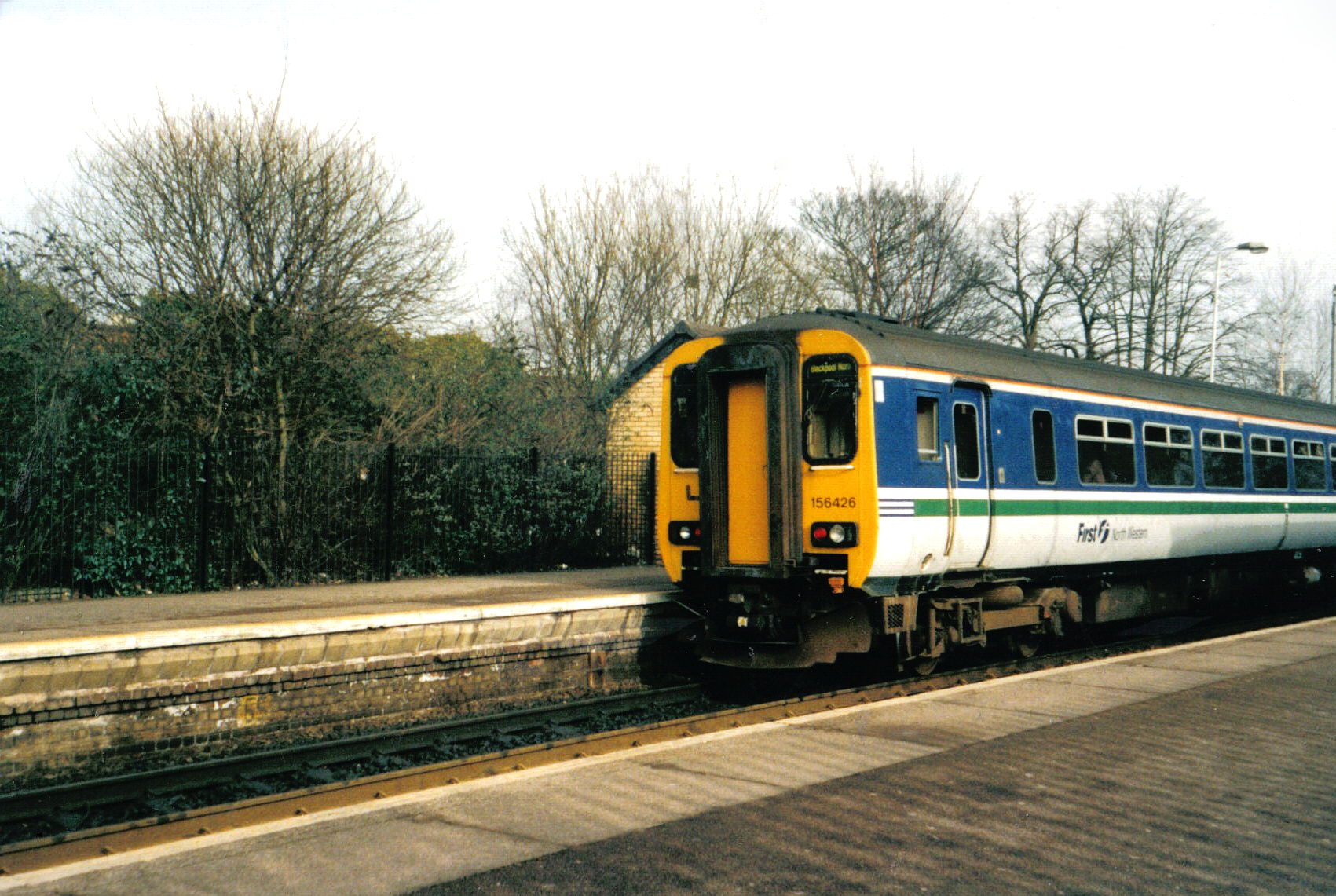 Class 156 at Huyton, Merseyside